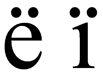 "ë ï" in 200px Times New Roman